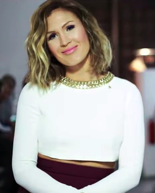 Screenshot of video, Vitaa while promo photoshoot of "Vivre"